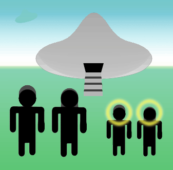 Adam, Eve, and extraterrestrial Elohim (according to Raëlism